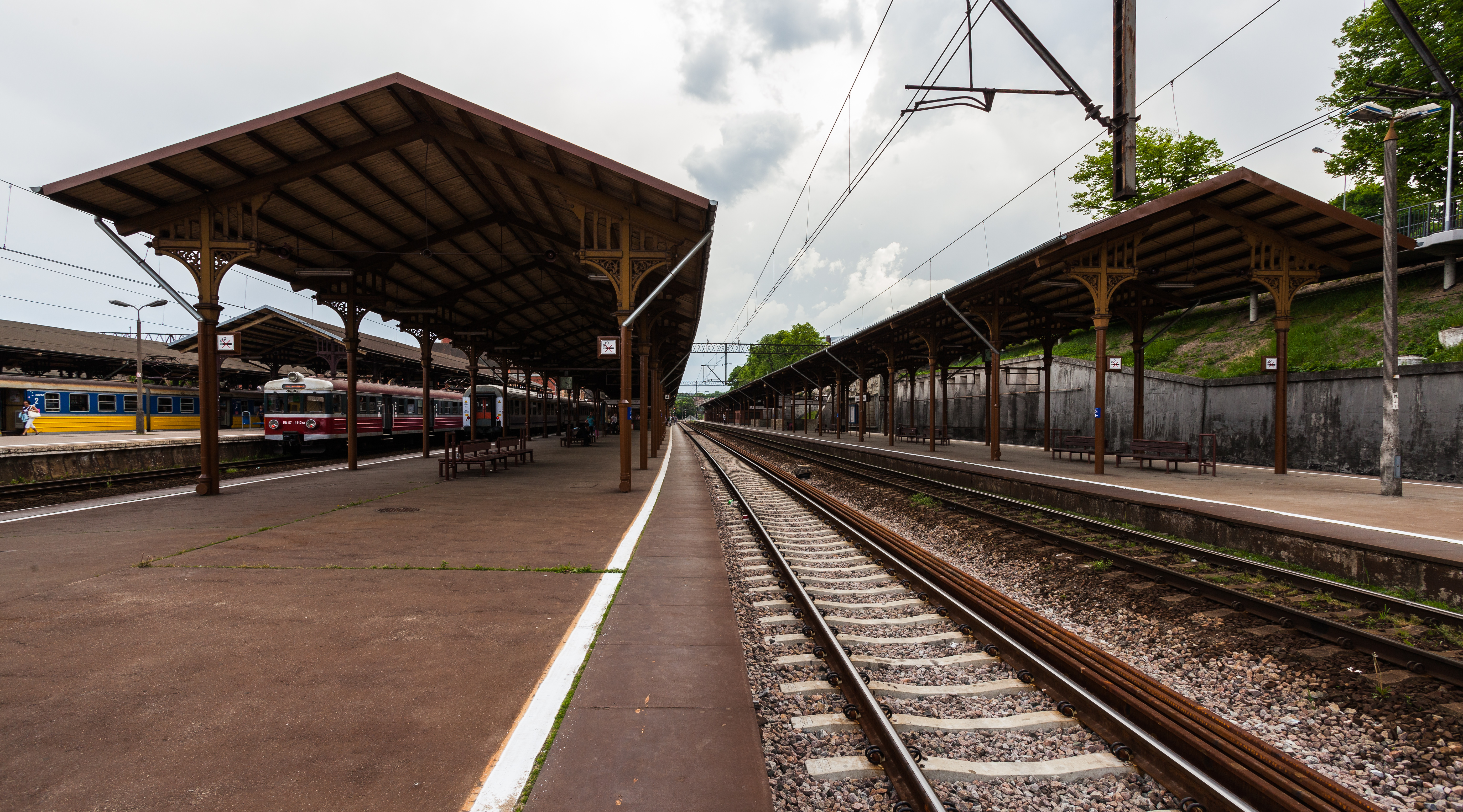 Central Railway Station, Gdansk, Poland